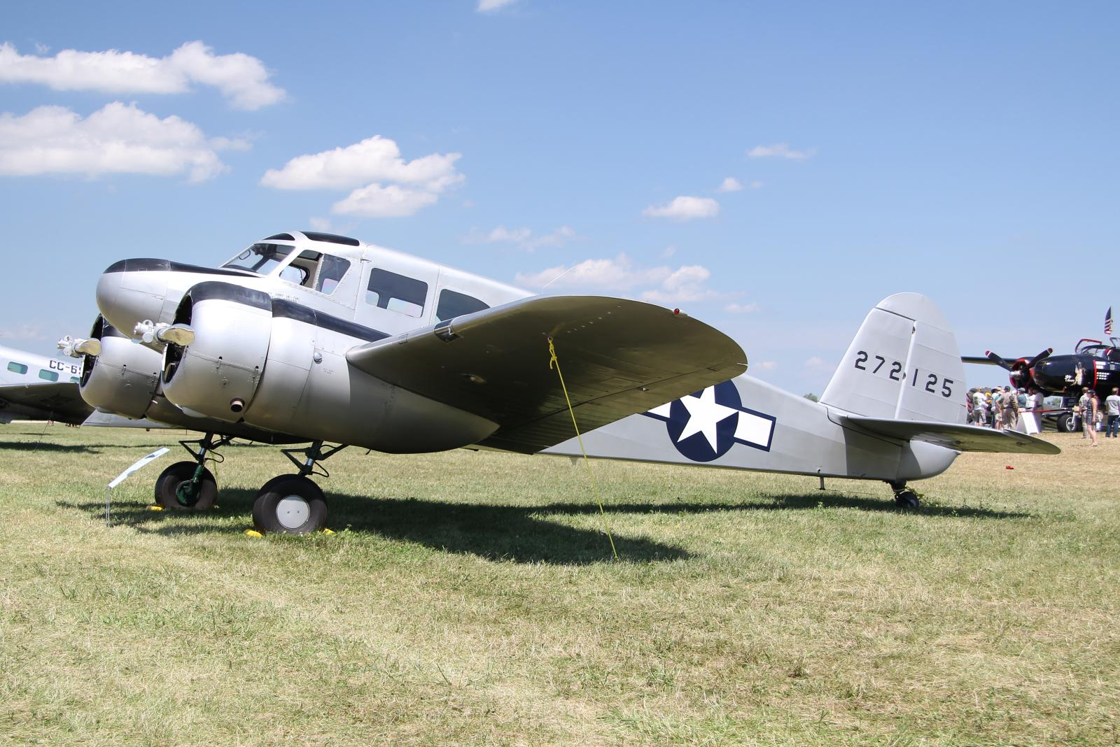 N88878 / 272125 (cn 4121)